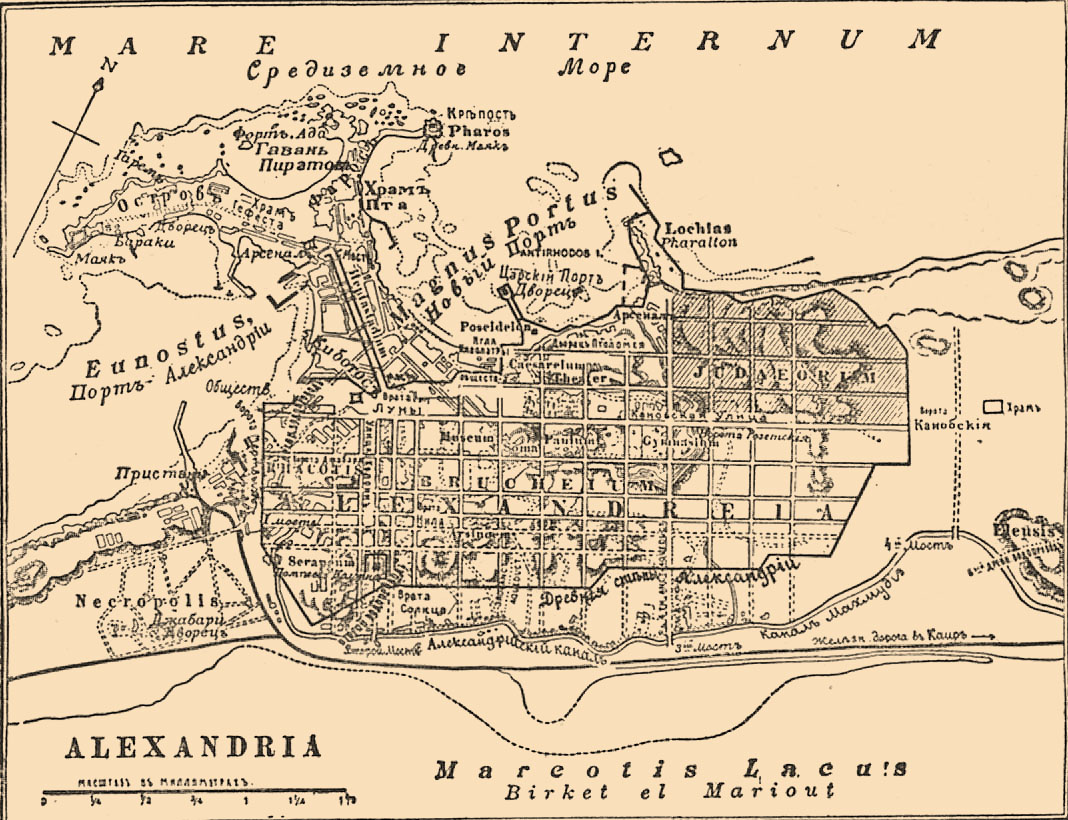 Illustration from Brockhaus and Efron Jewish Encyclopedia (1906—1913)